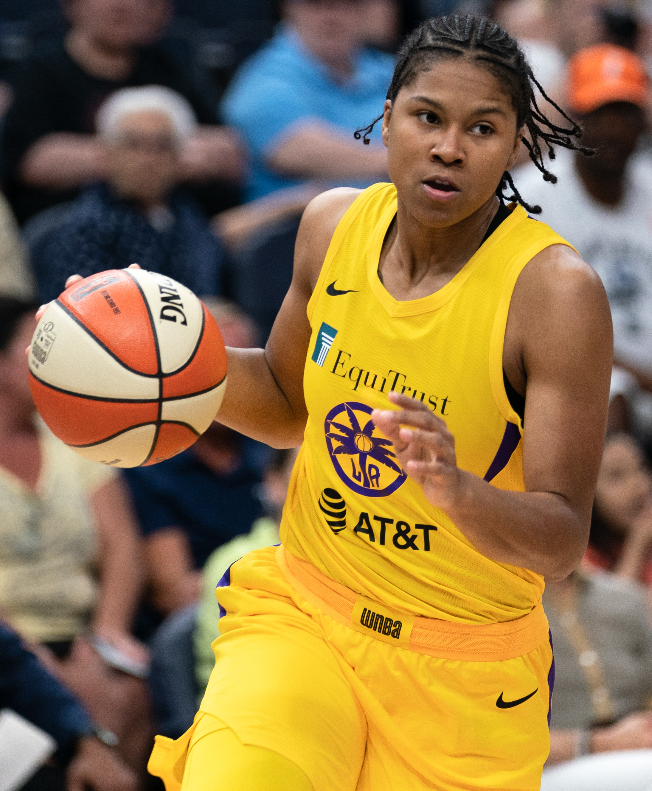 Los Angeles player Tierra Ruffin-Pratt in a game against the Minnesota Lynx